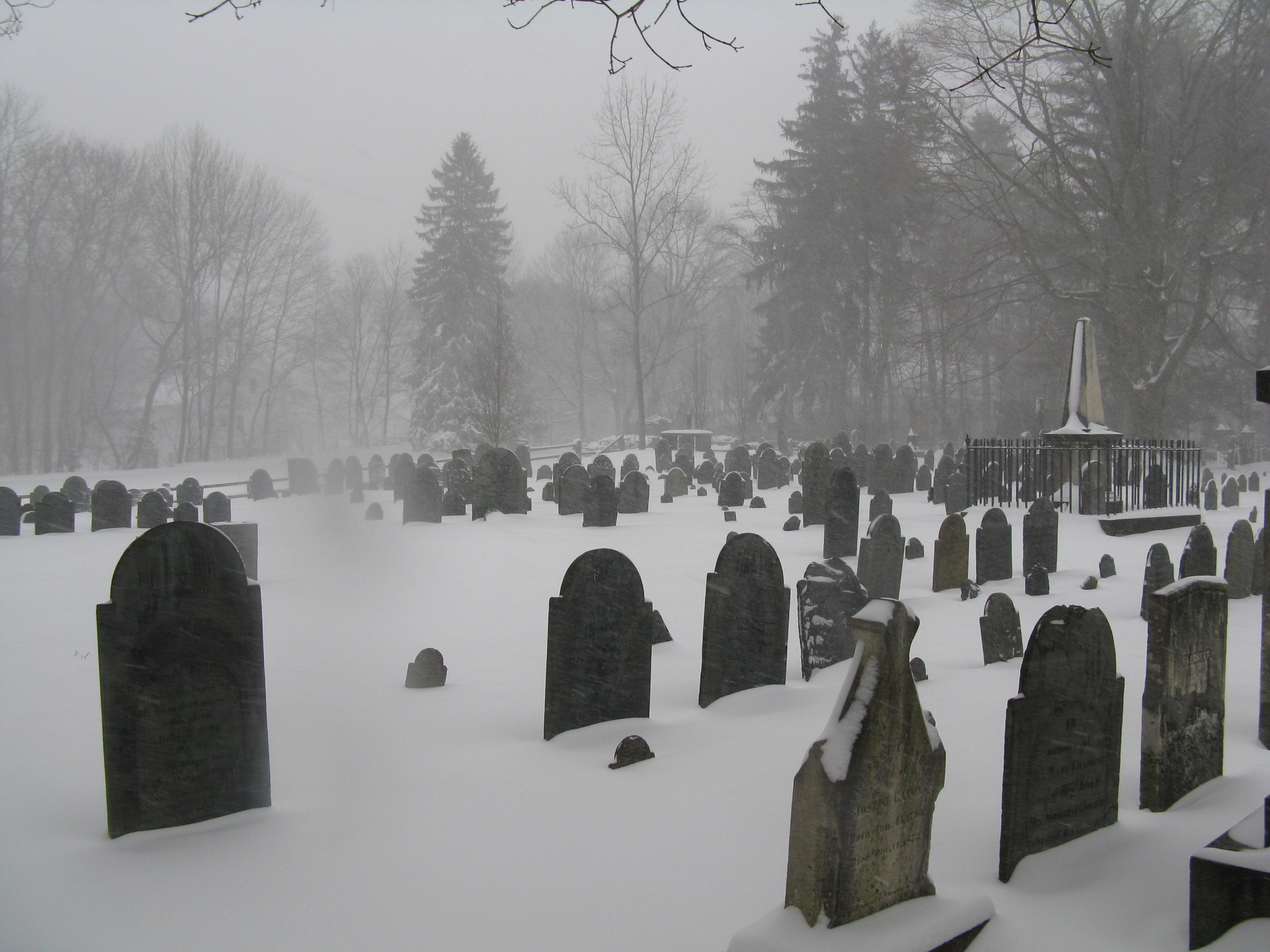 Old Burying Ground, Lexington Massachusetts